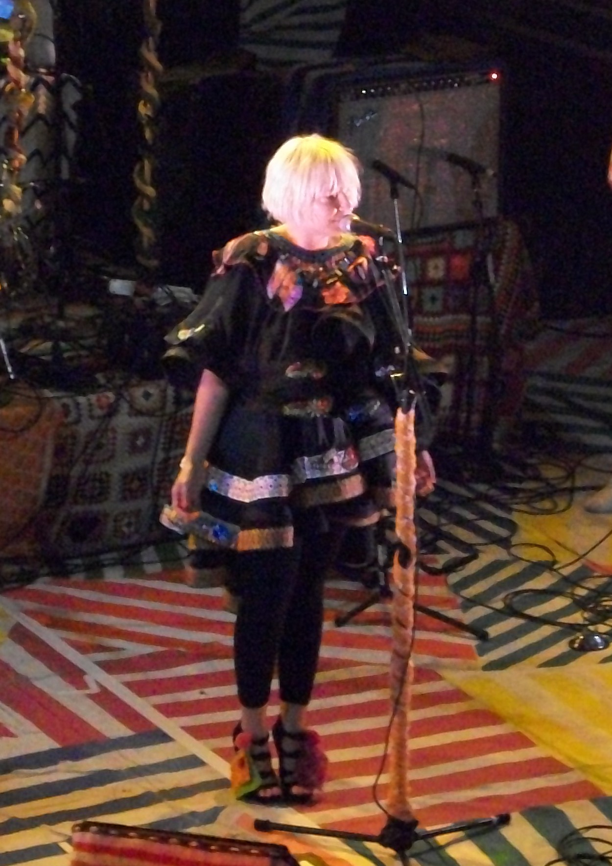 Sia We Are Born Tour 2011